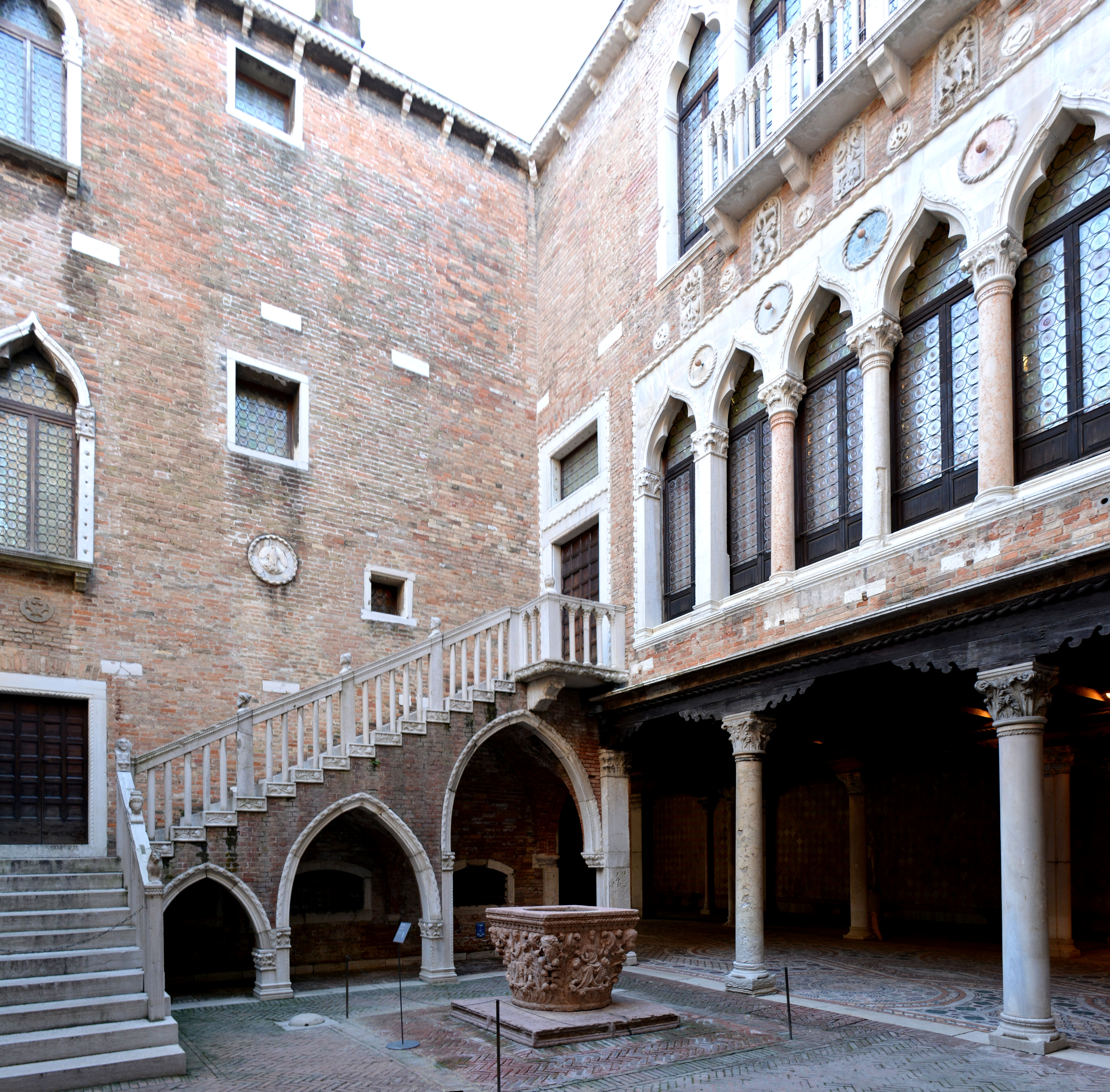 Ca 'd'Oro Palace - ground floor. Detail - internal courtyard. This is a photo of a monument which is part of cultural heritage of Italy.